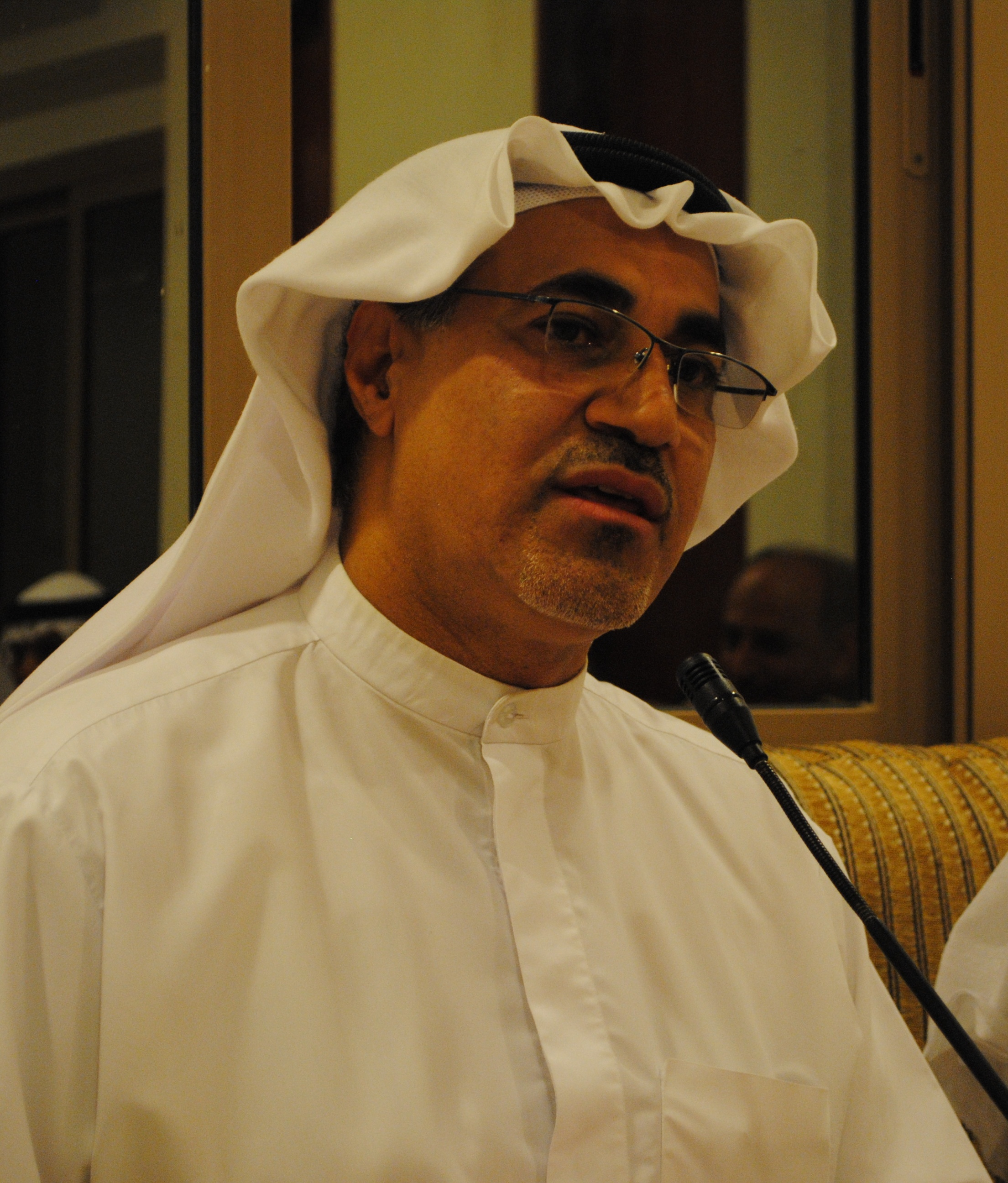 Personal image for Mohammed al-Tajer during a political seminar